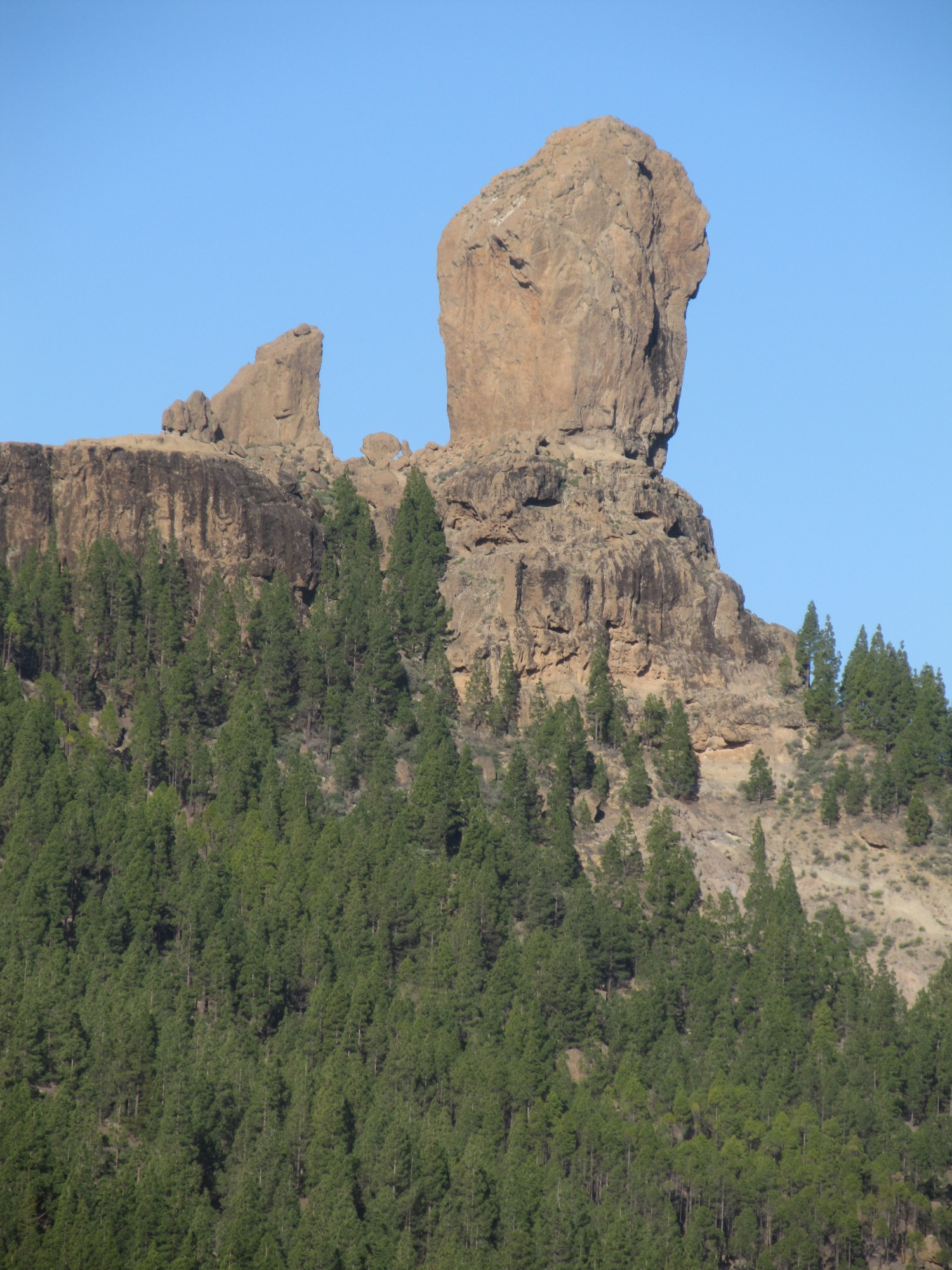 Roque Nublo, gran canaria